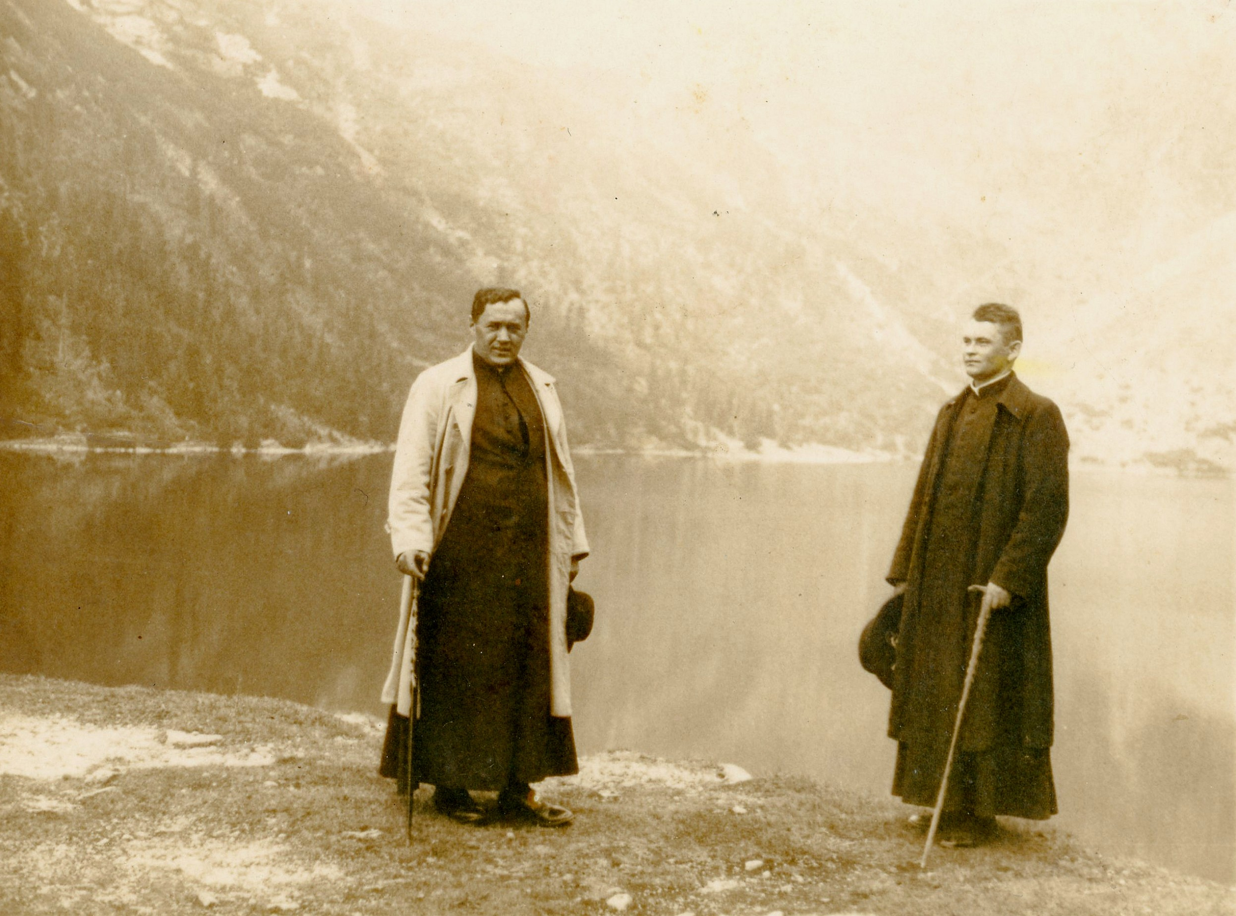 Priest Władysław Plewik in Tatra Mountains (Morskie Oko)